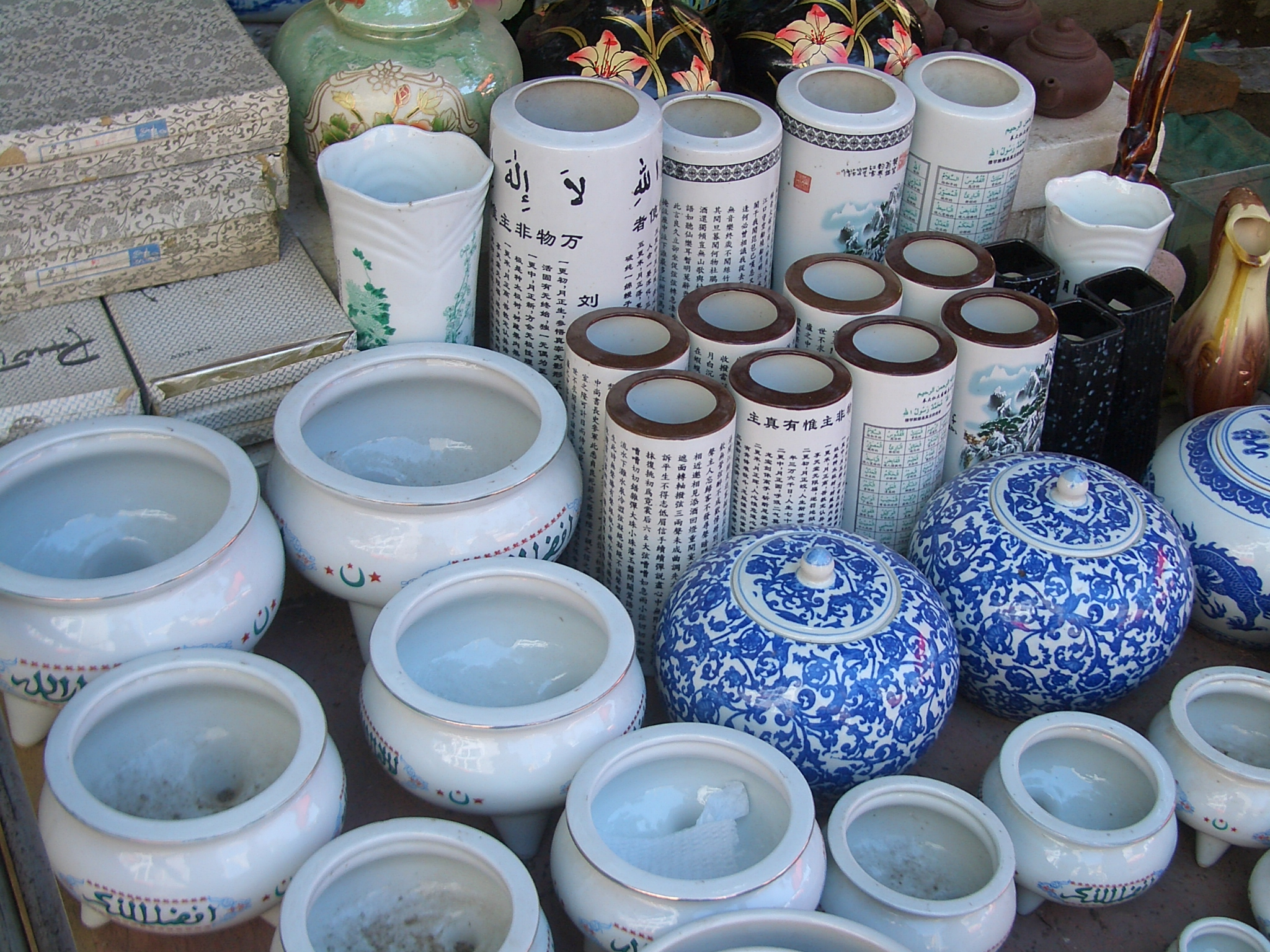 Islamic-themed porcelain sold by a Hui vendor in Qianheyan Lu, a busy market street in the southern part of Linxia City.